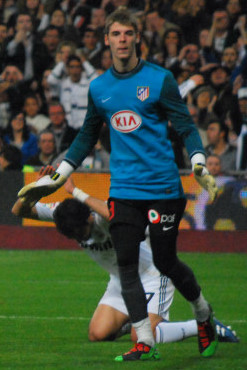 Spanish footballer David de Gea playing for Atlético Madrid.